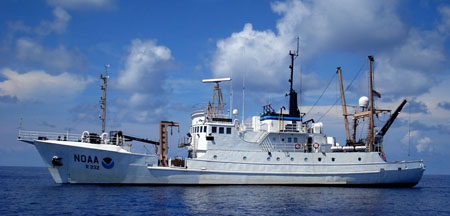 The National Oceanic and Atmospheric Administration fisheries research ship NOAAS Oregon II (R 332)